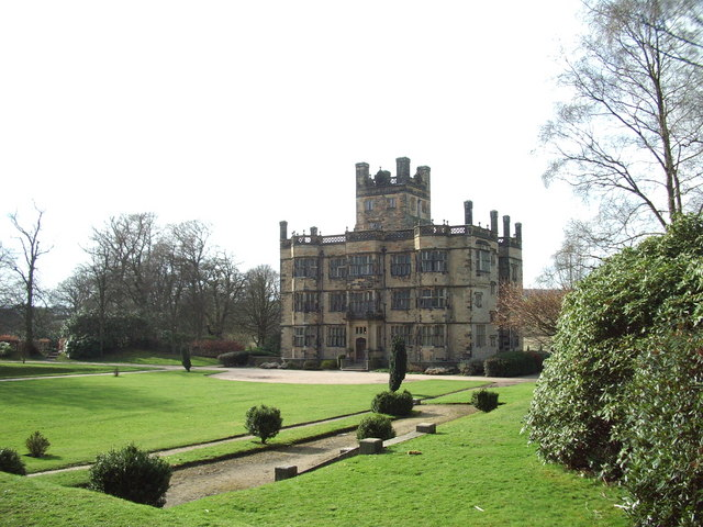 Gawthorpe Hall